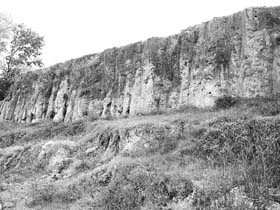 This is picture of Archelogical Site Village Bara in Rupnagar District of Punjab